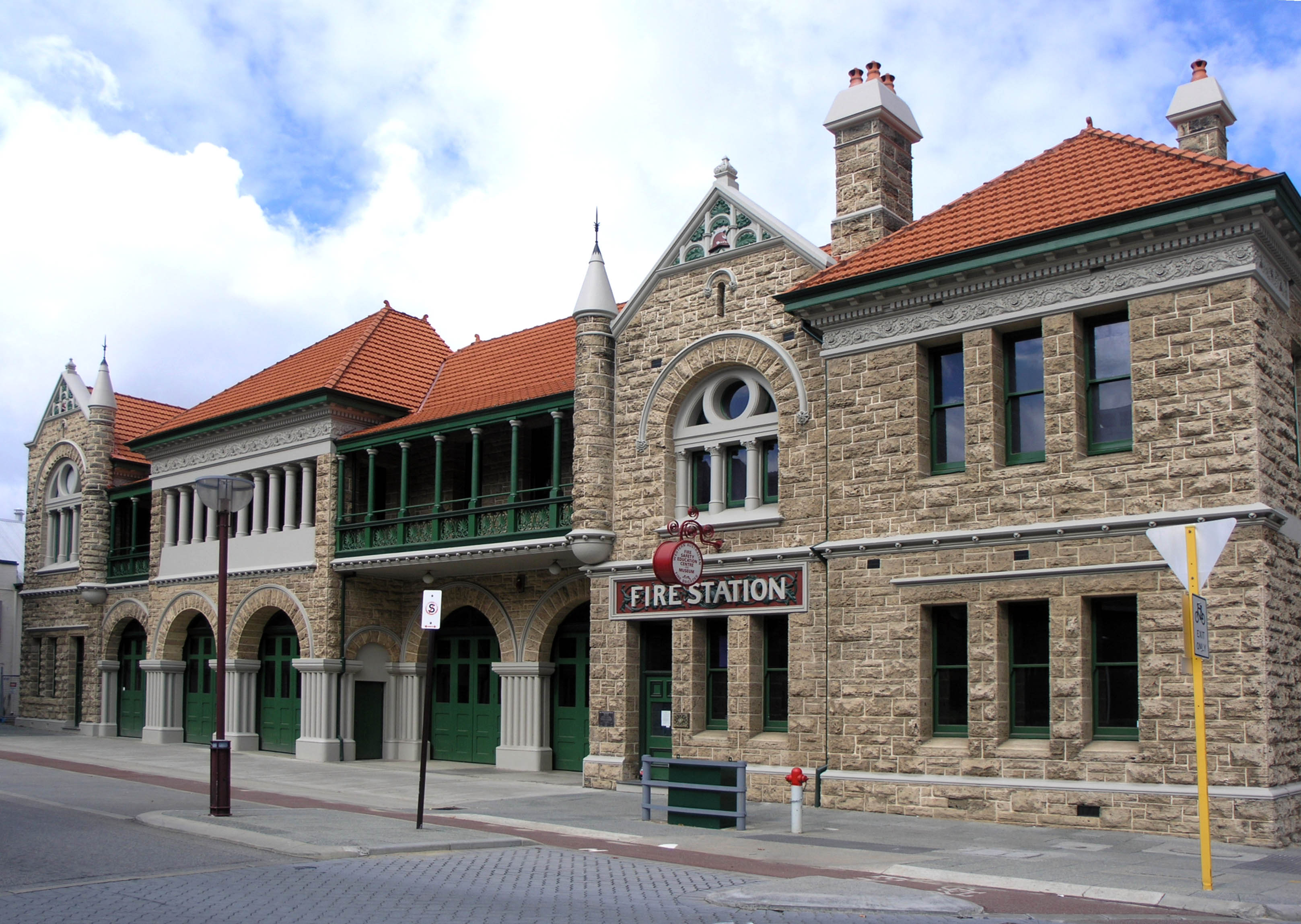 Old Perth Fire Station — housing present day Fire Safety Education Centre Museum, in Perth, Western Australia.